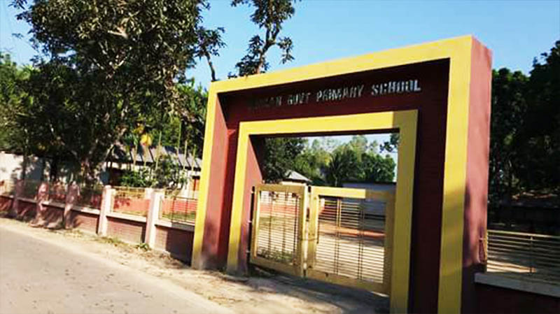 Shoilan Government Primary School is a school in Dinajpur District of Bangladesh. This is the oldest school in Katla Union and second oldest school in Birampur Upazila.